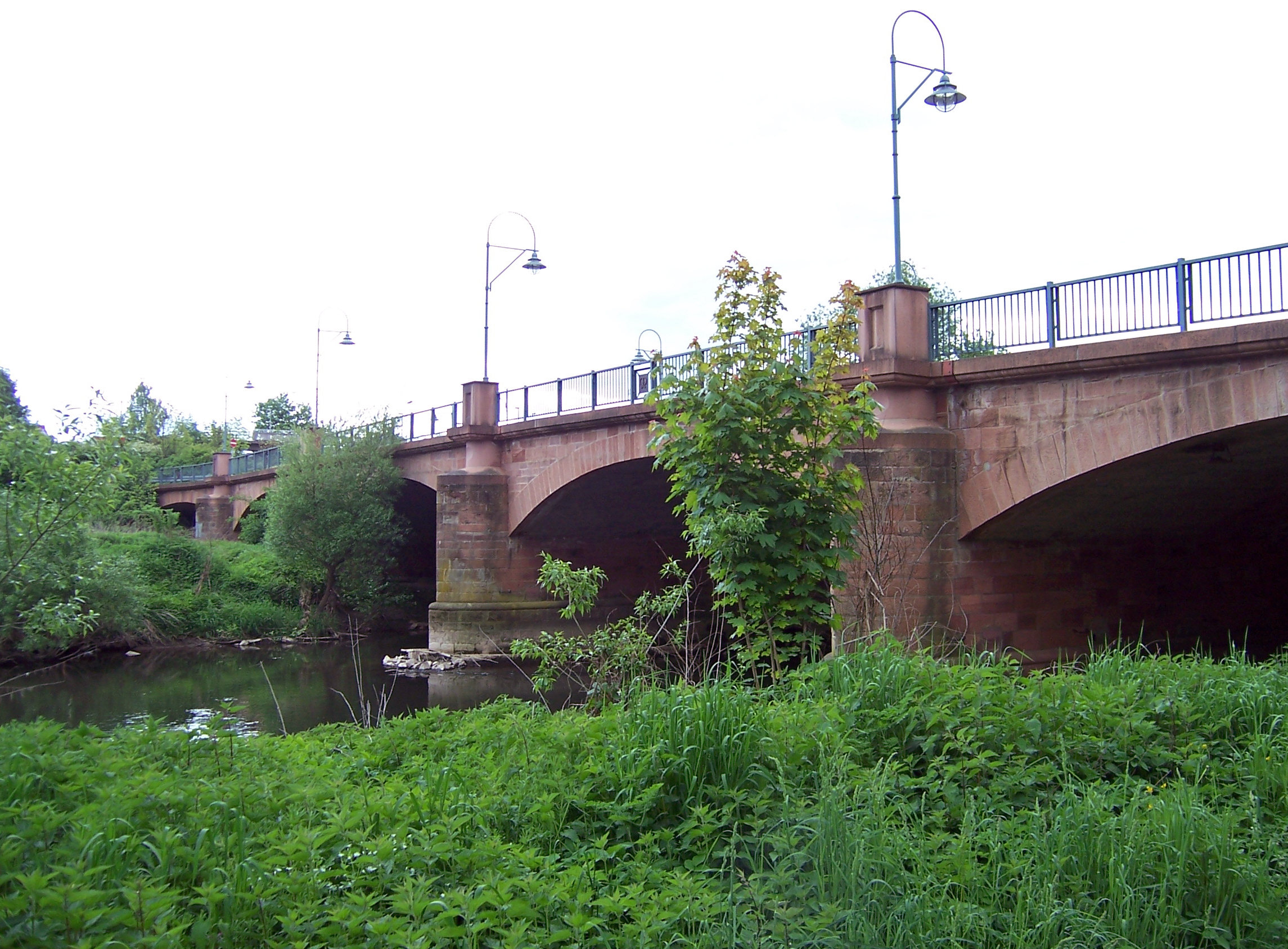 Schützenpfuhl bridge in Marburg